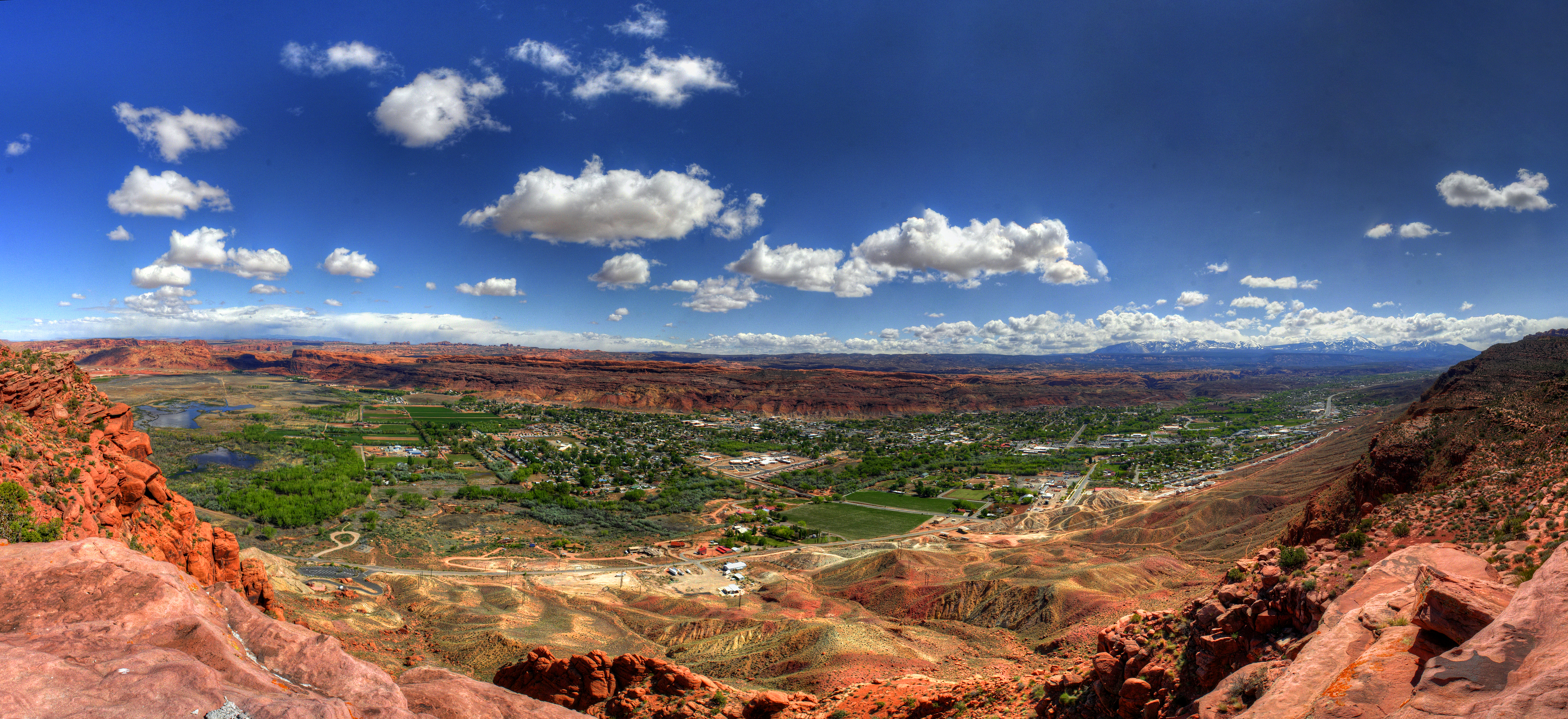 Moab is a city in Grand County, in eastern Utah, in the western United States